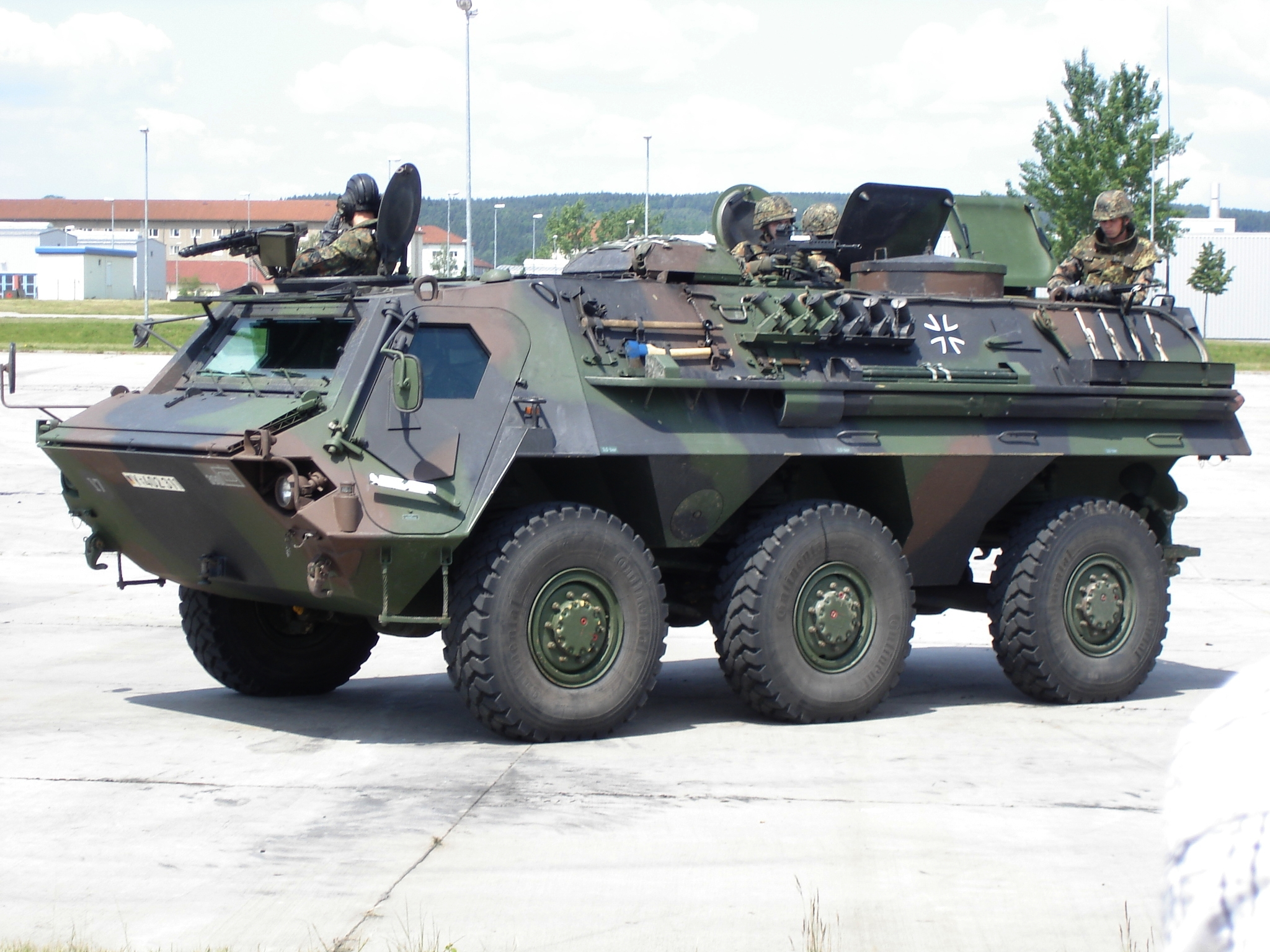 TPz1 Fuchs with Config engineer-transport